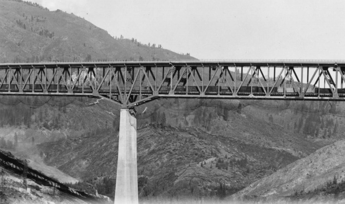 The former Pit River Railroad bridge, crossing the Pit River gorge in Shasta County, California. Taken before the before the Pit River Valley was flooded by Shasta Lake reservoir